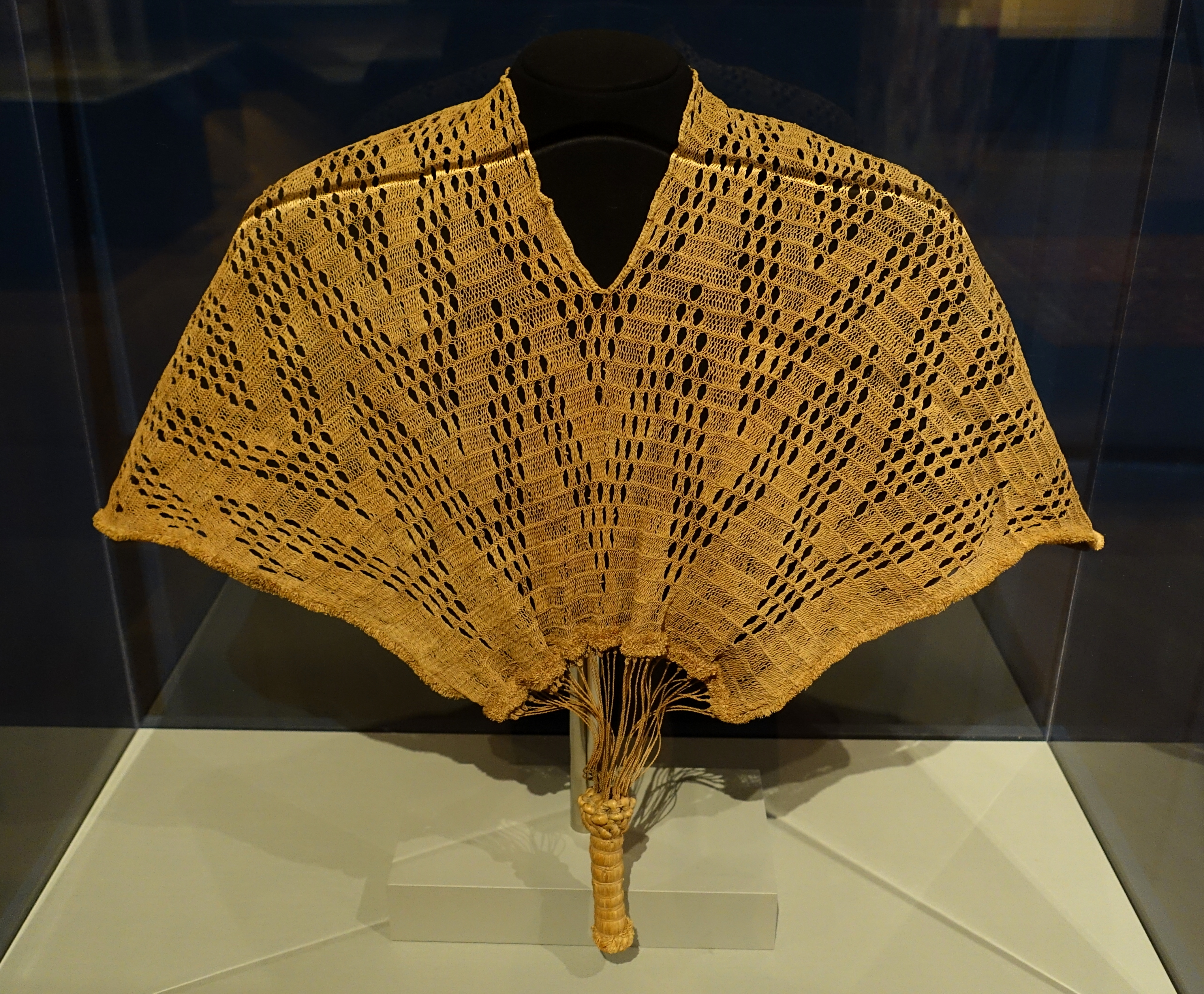 Exhibit in the Textile Museum, George Washington University, Washington, DC, USA. This work is old enough so that it is in the public domain.